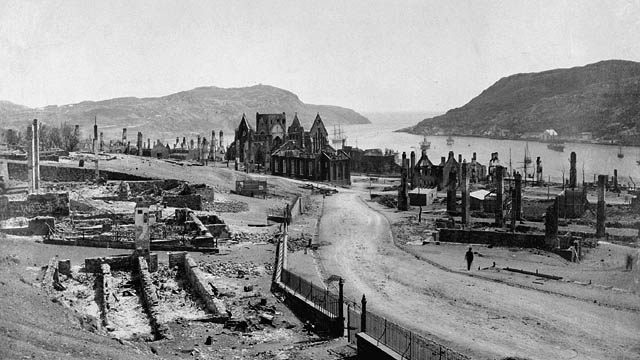 View of the Anglican Cathedral of St. John the Baptist which was burned in the fire of 1892. St. John's, Newfoundland.